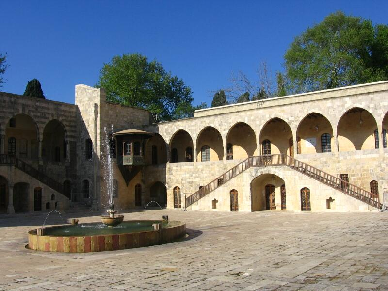 Beiteddine Palace - Inner Courtyard Photographed by BlingBling10 Category:Beiteddine